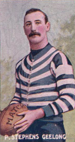 Cigarette card of Peter Stephens from the Sniders & Abrahams 1906 series